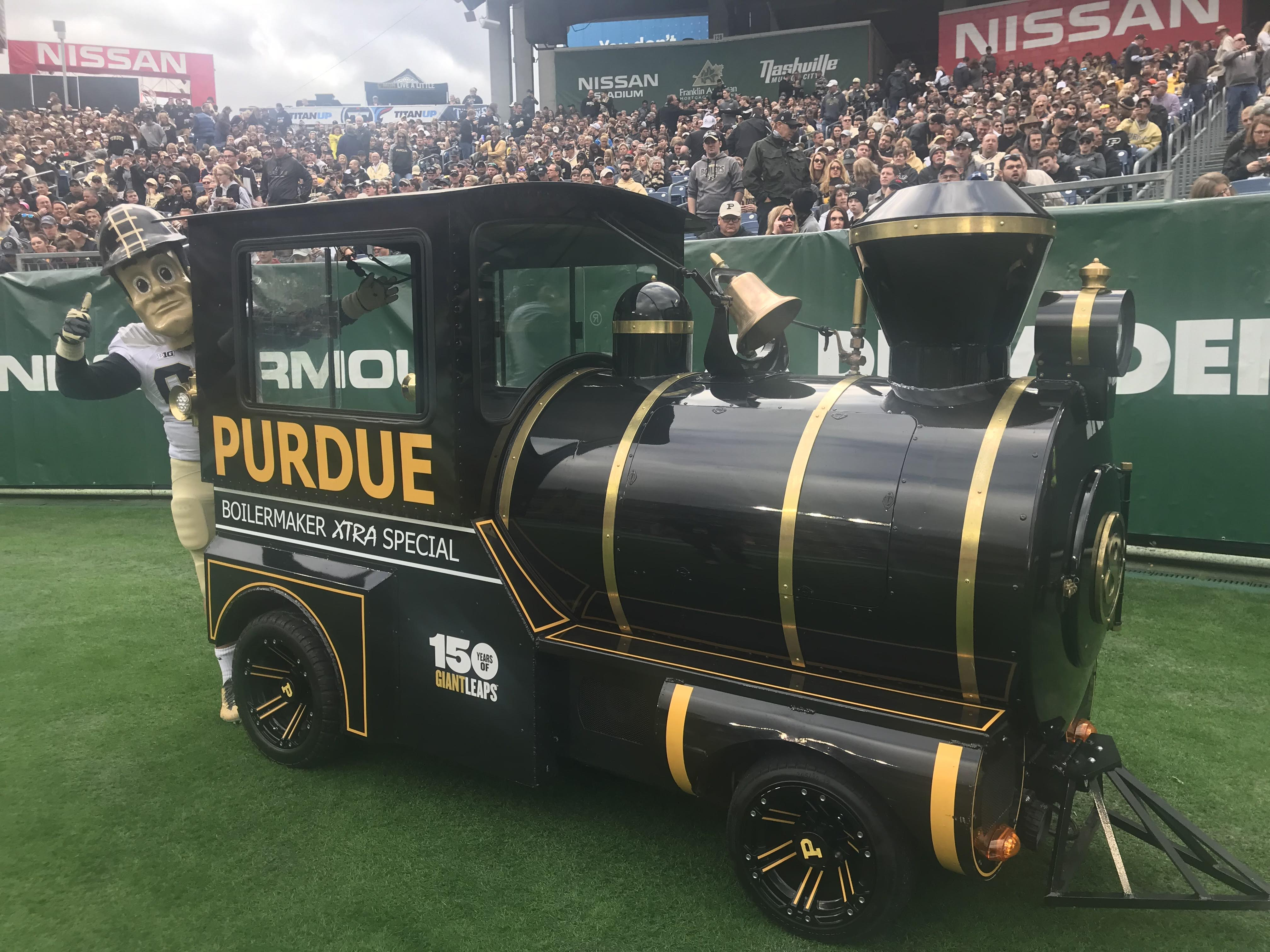 The Boilermaker X-tra Special VIII with Purdue Pete at the 2018 Music City Bowl.